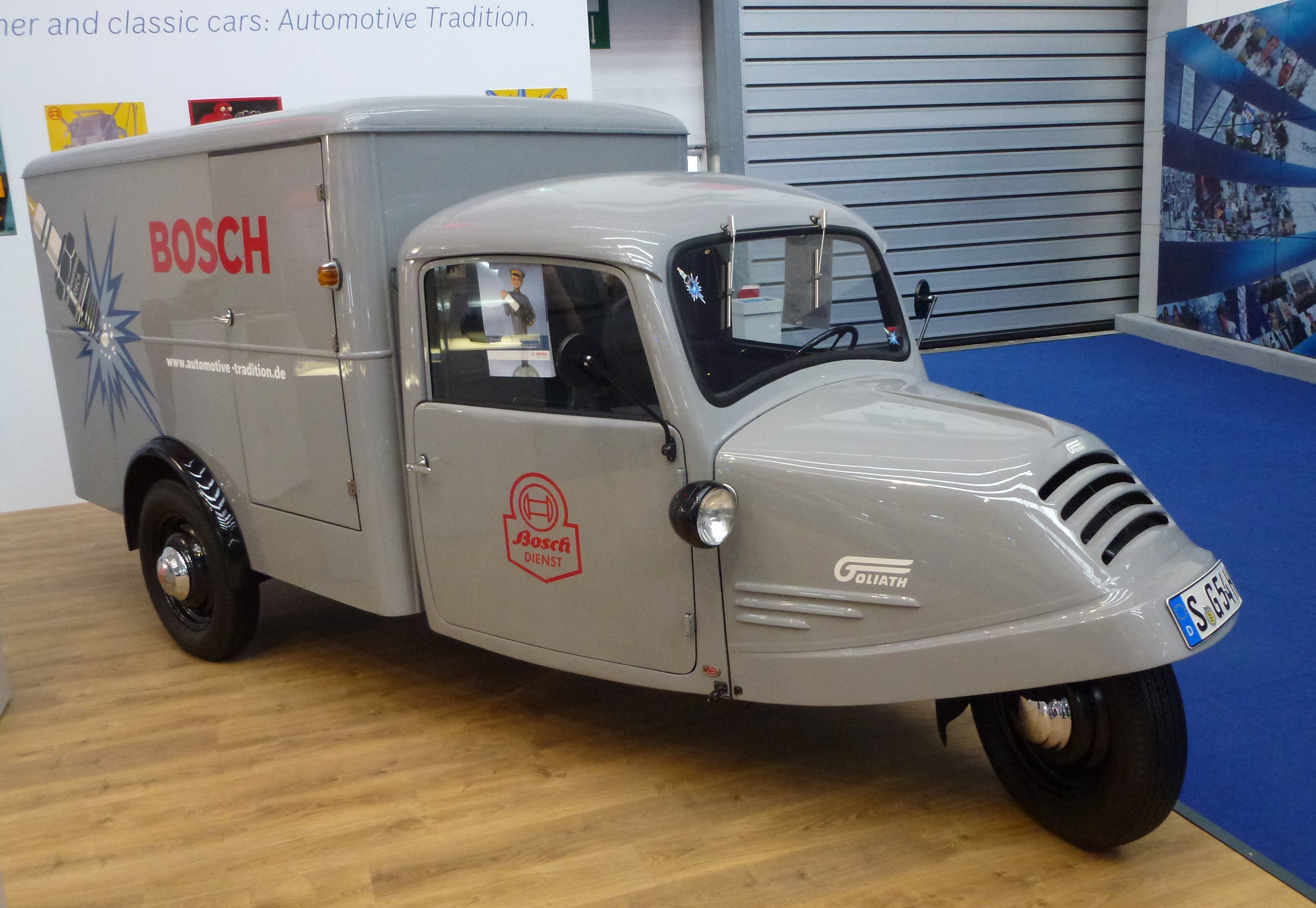 Goliath three-wheeler car ca. 1954